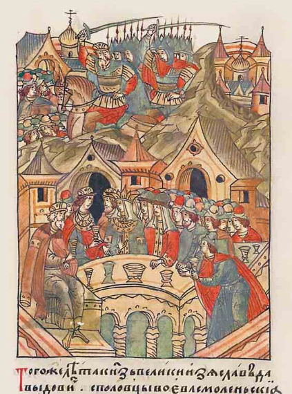 Iziaslav III of Kiev fights in Smolensk; Wedding of Sviatoslav Vladimirovich of Chernigov and Rostislava Andreyevna of Vladimir and Suzdal, daughter of Andrey Bogolyubsky